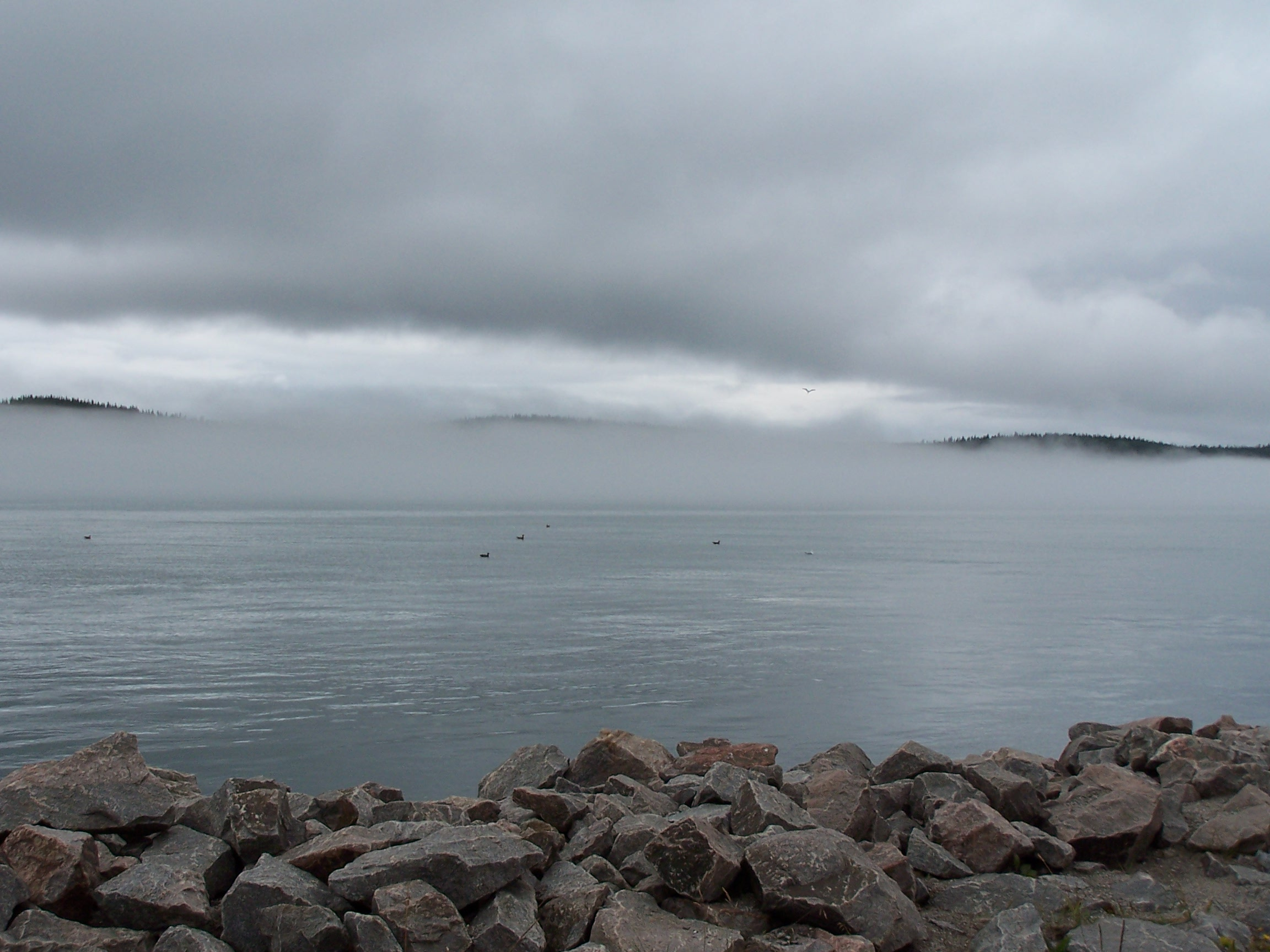 The Mingan islands facing the town of Havre-Saint-Pierre, Quebec.